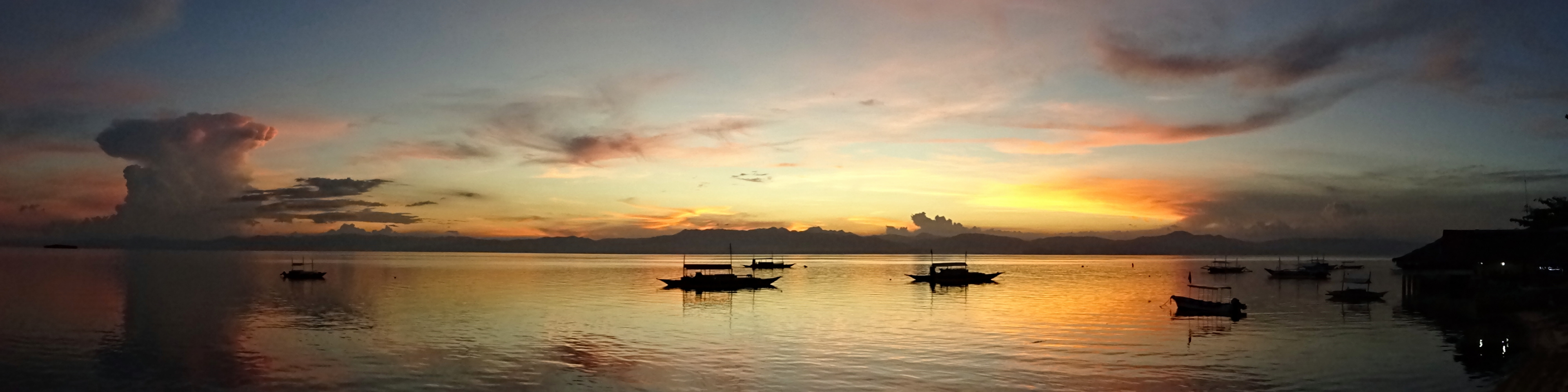 Tañon Strait from Moalboal, Cebu, Philippines